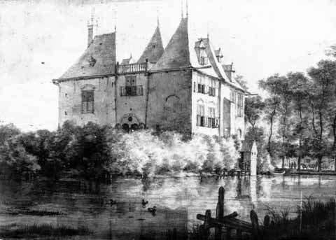 Develstein Castle in Zwijndrecht, the Netherlands.